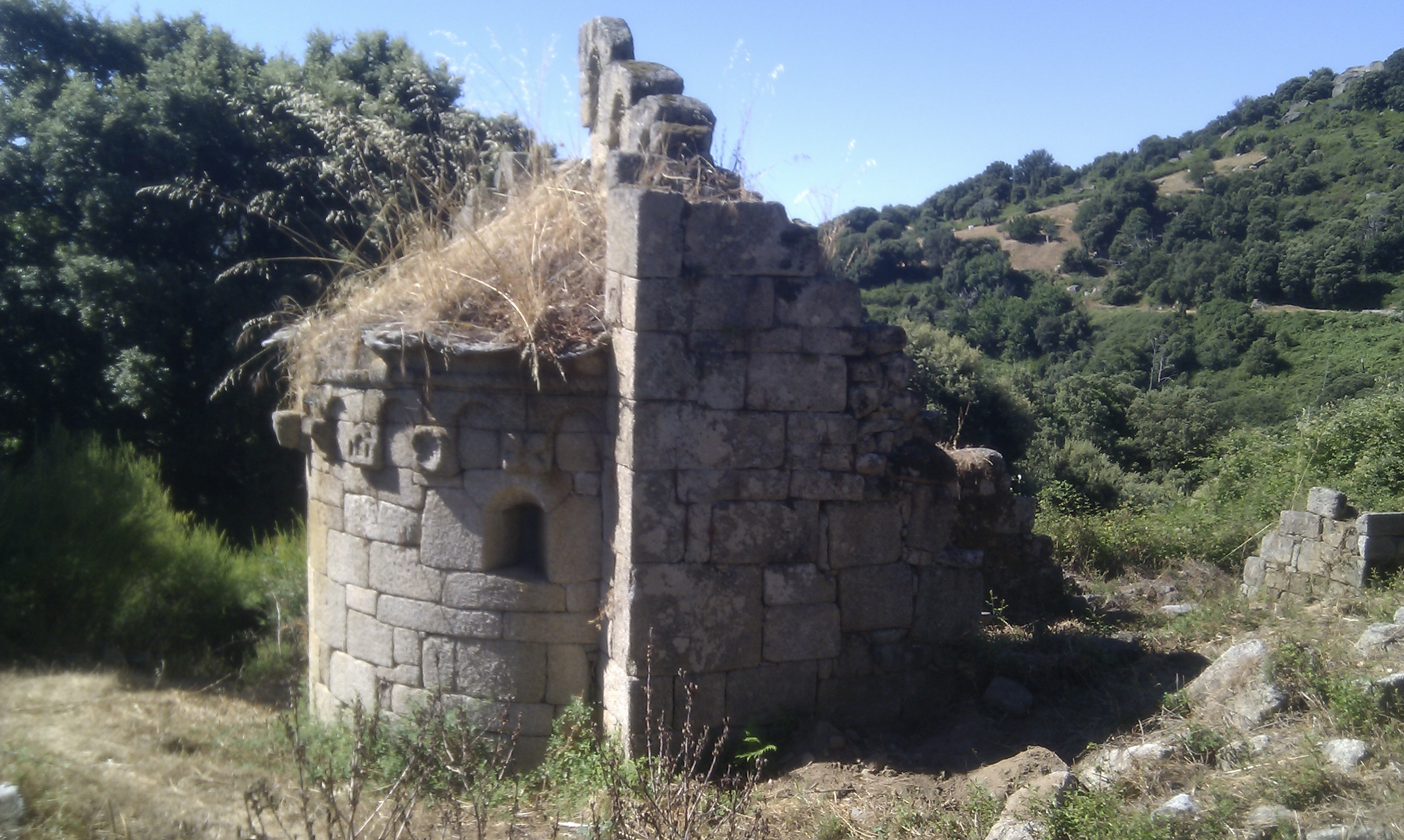 roman chapel from Panicala in Corsica